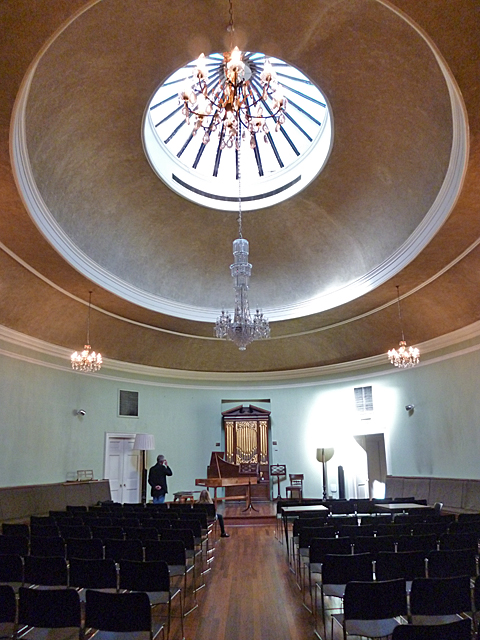 St Cecilia's Hall